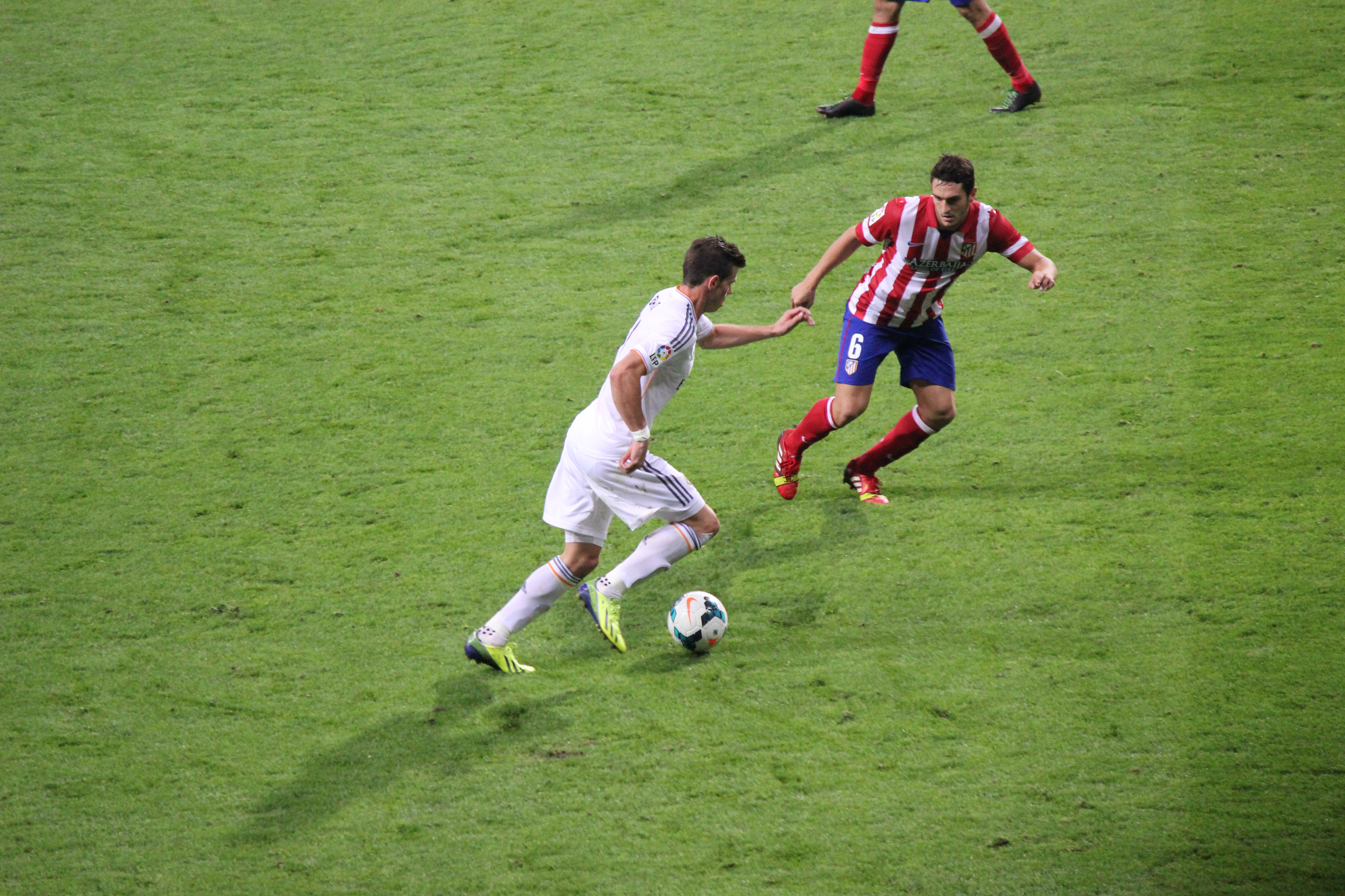 Real Madrid vs. Atlético Madrid 28 September 2013